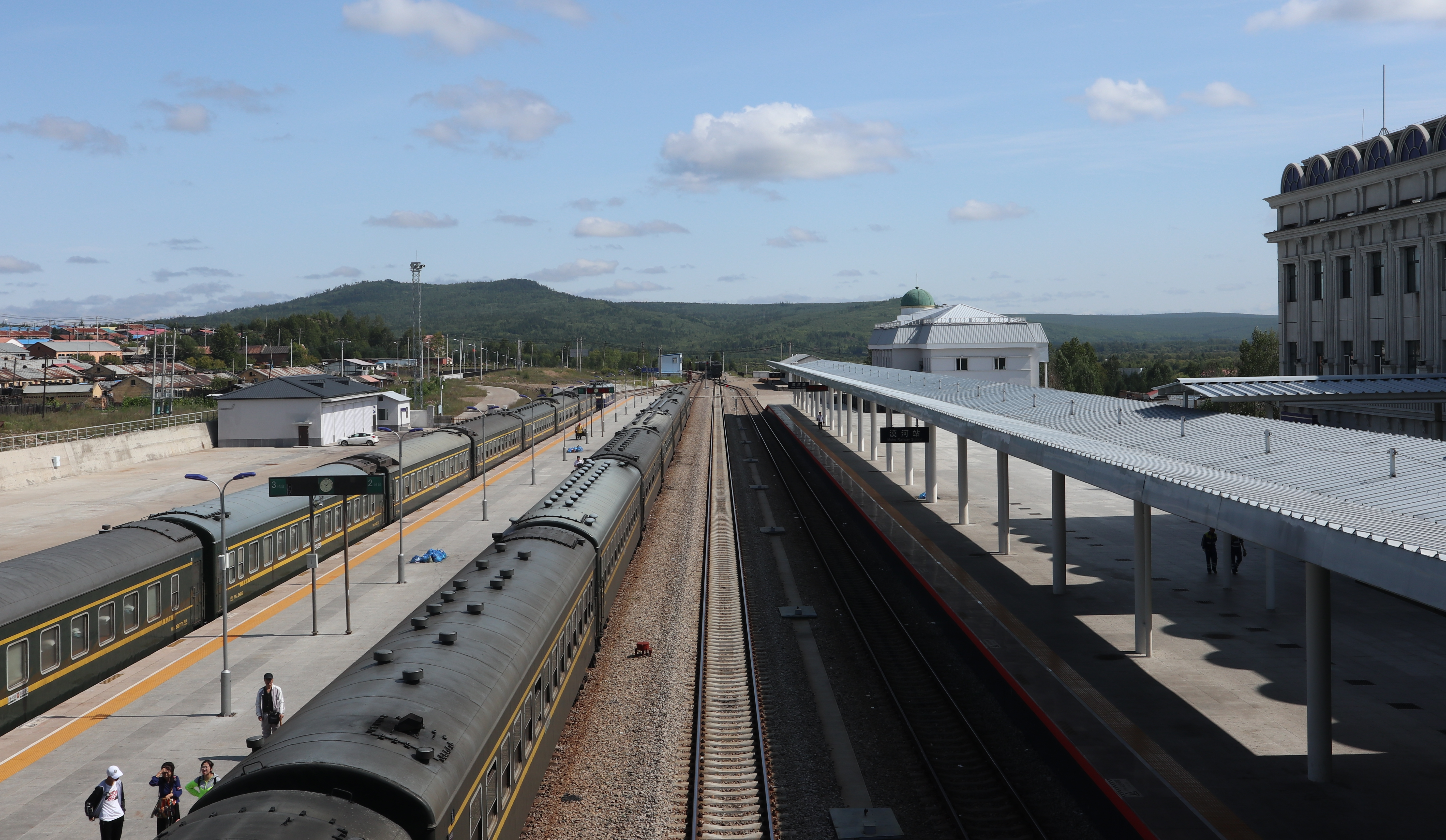 Overlook of Mohe Railway Station.